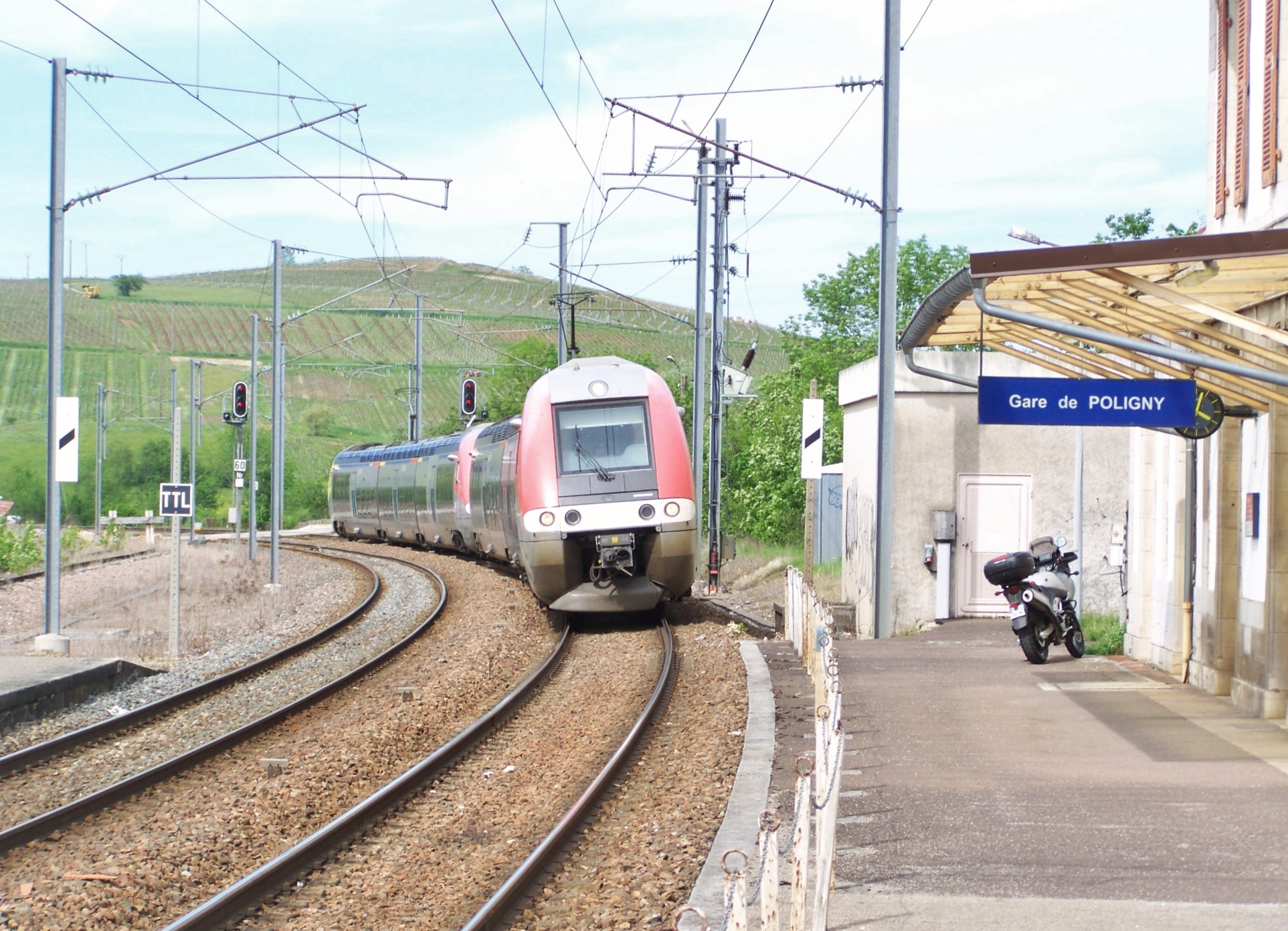 French regional train joining Belfort to Lyon is entering city of Poligny station, in Jura.